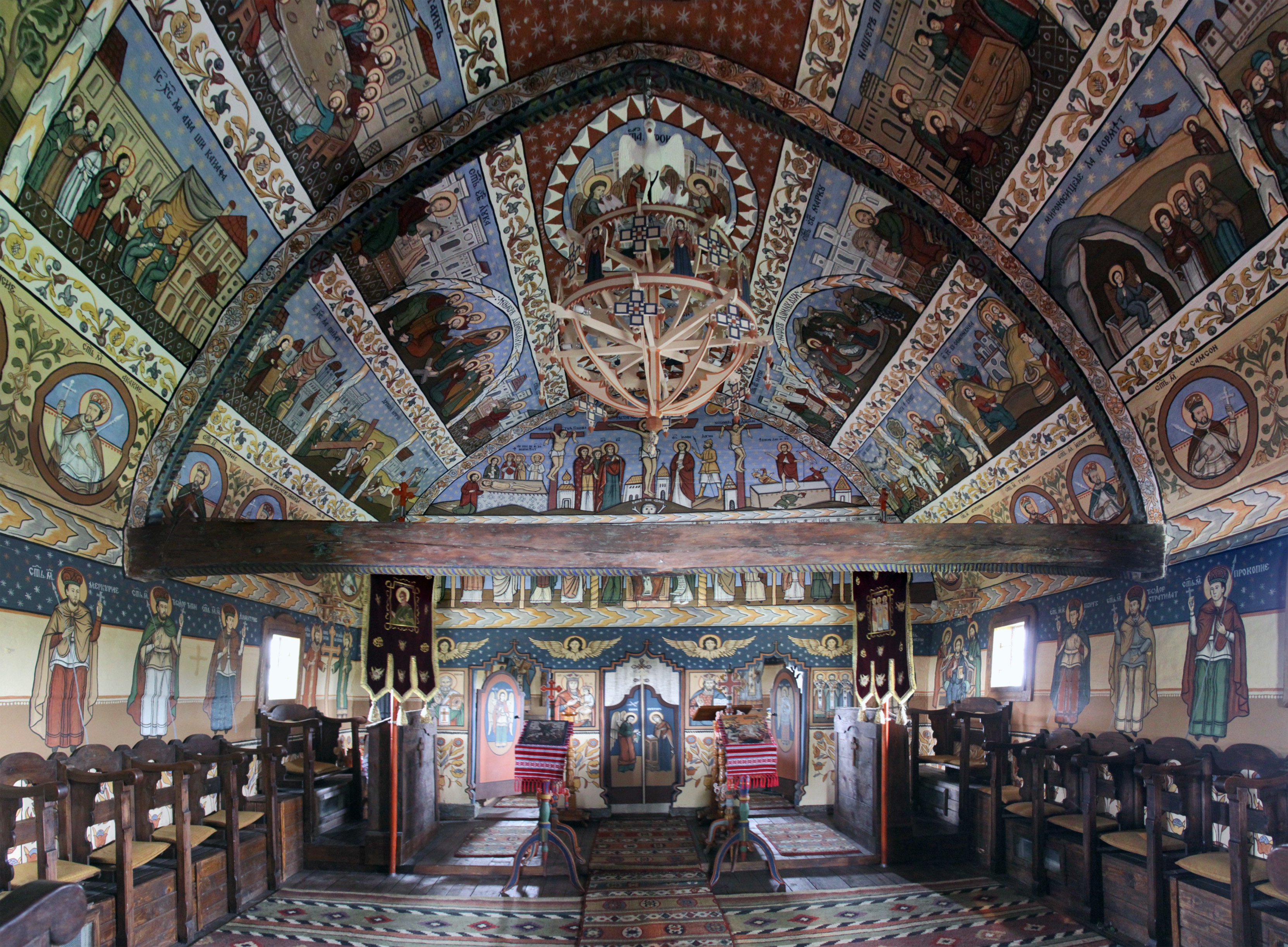 Cucuceni, Bihor: the wooden church initially in Ghighişeni. Nave interior.